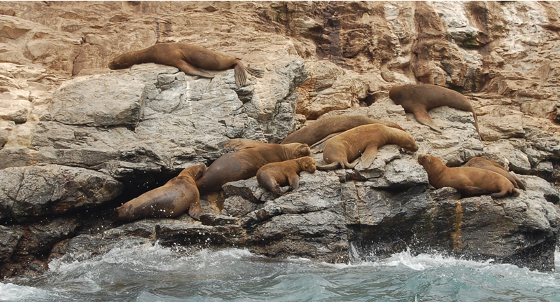 Marine wolves. Choros Island. - Chile